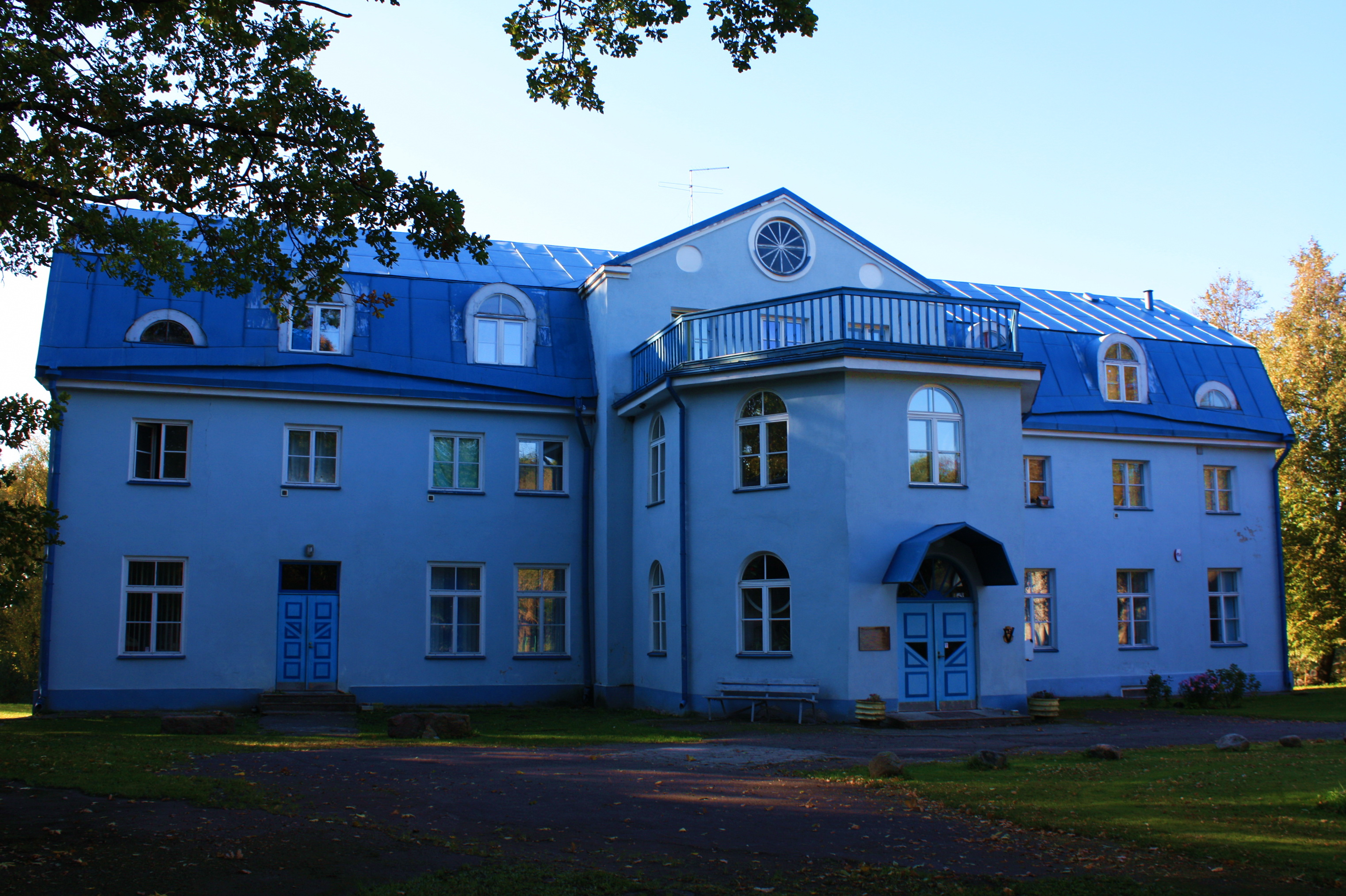 Viti manorhouse